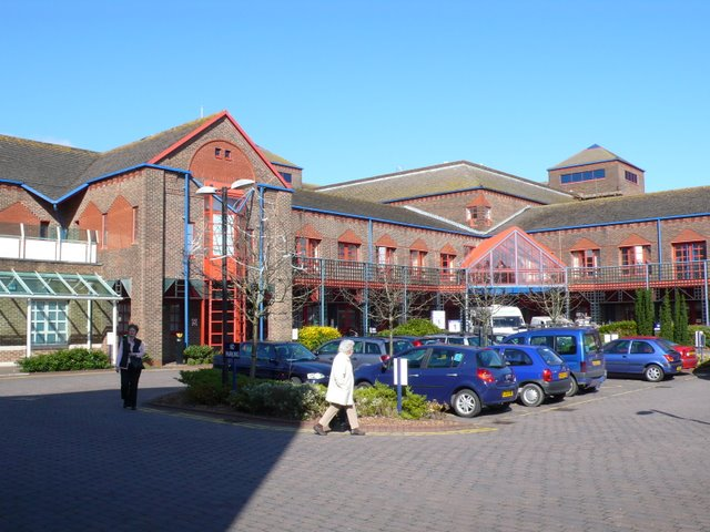 Dorset County Hospital The Main Entrance to the hospital